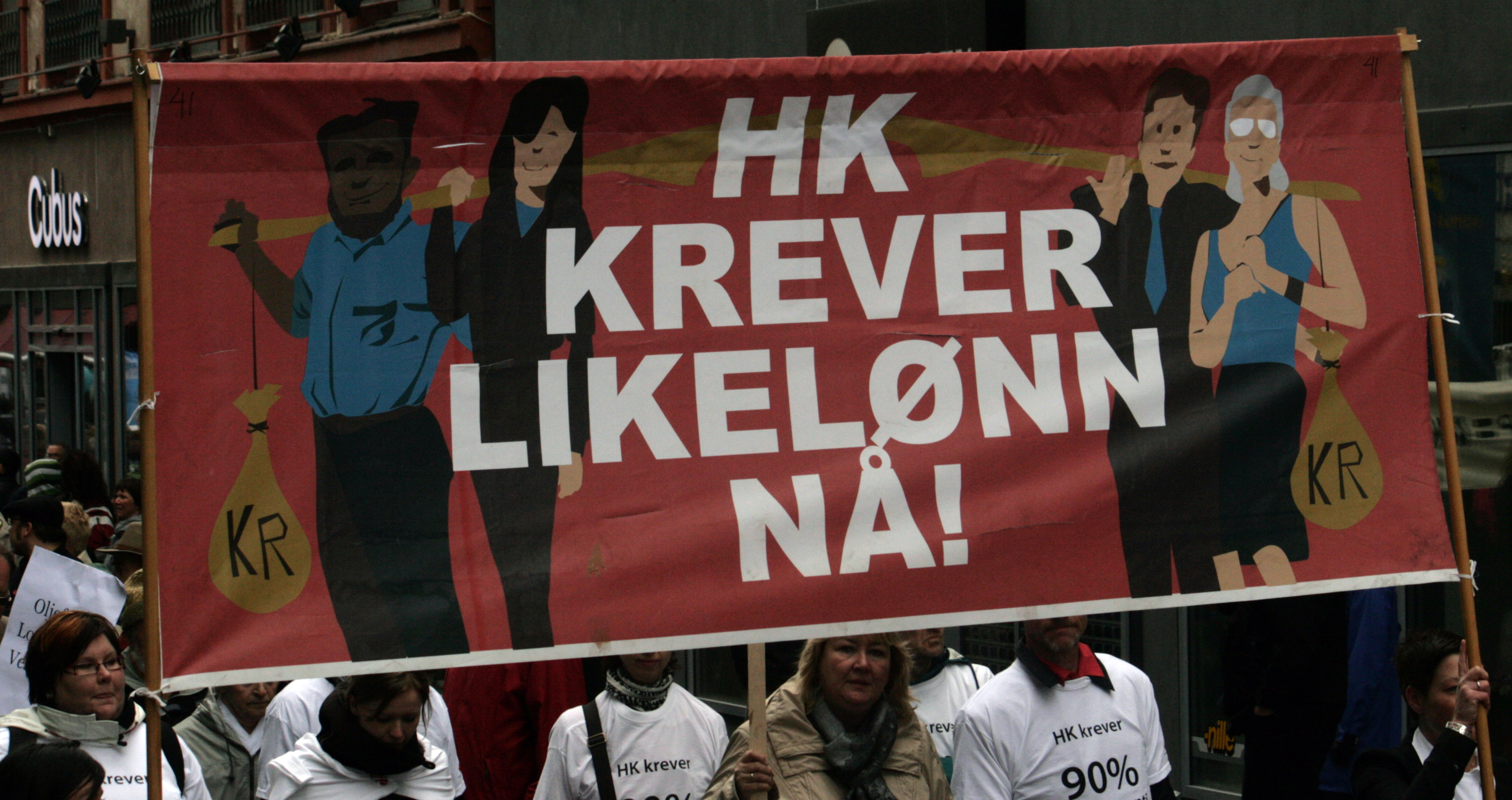 Labour Day, 2010 (Oslo): Union of Employees in Commerce and Offices of Norway with a banner for equal payment